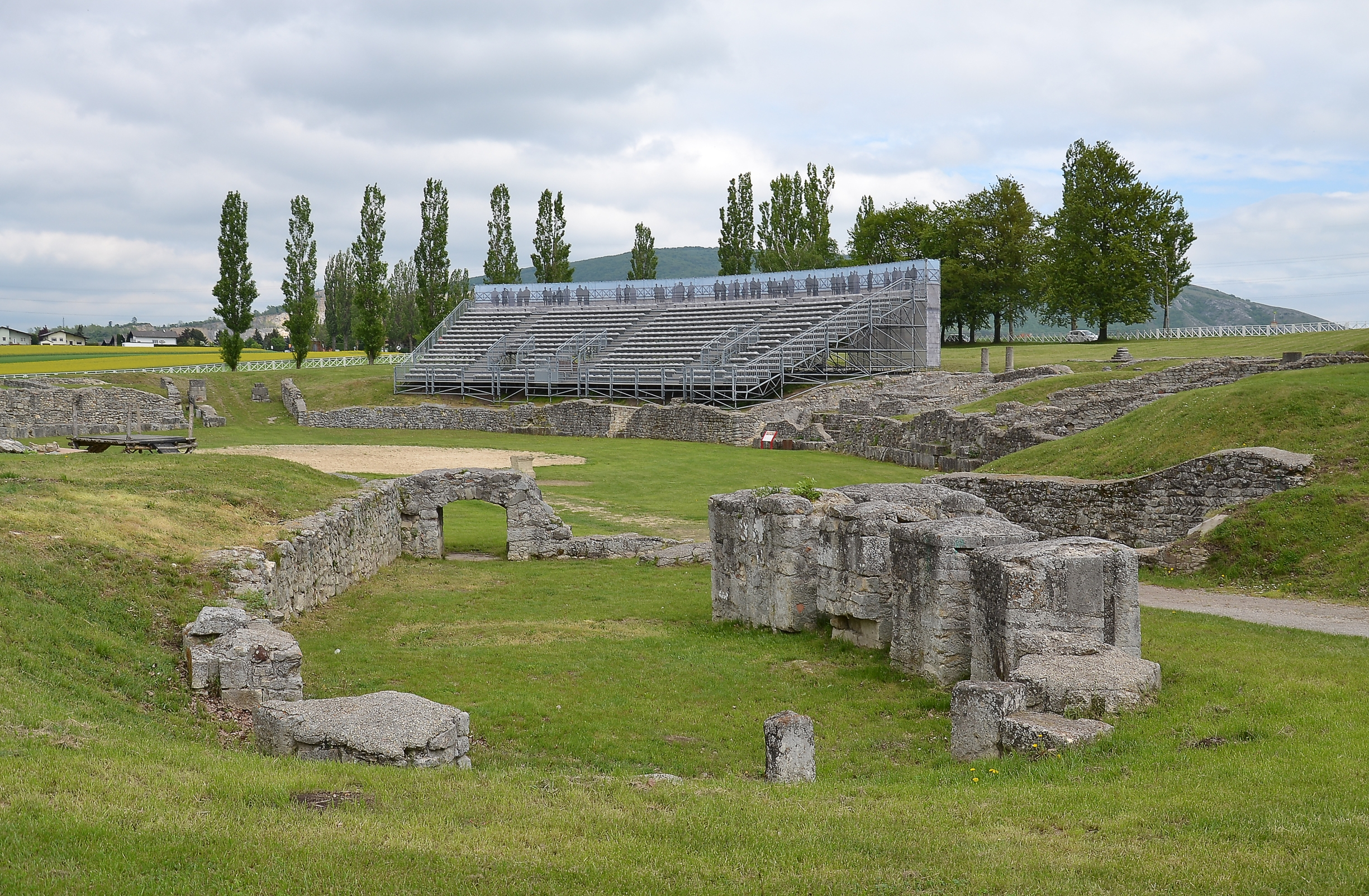 Ancient Roman amphitheatre in Bad Deutsch-Altenburg, Austria